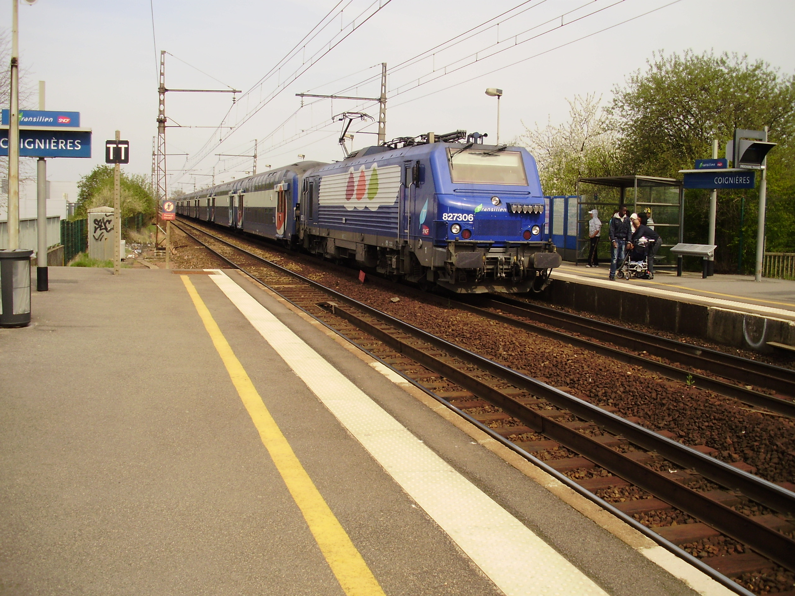 Class BB 27300 locomotive hauling VB 2N coaches arriving from Paris in Coignières station, Yvelines, France